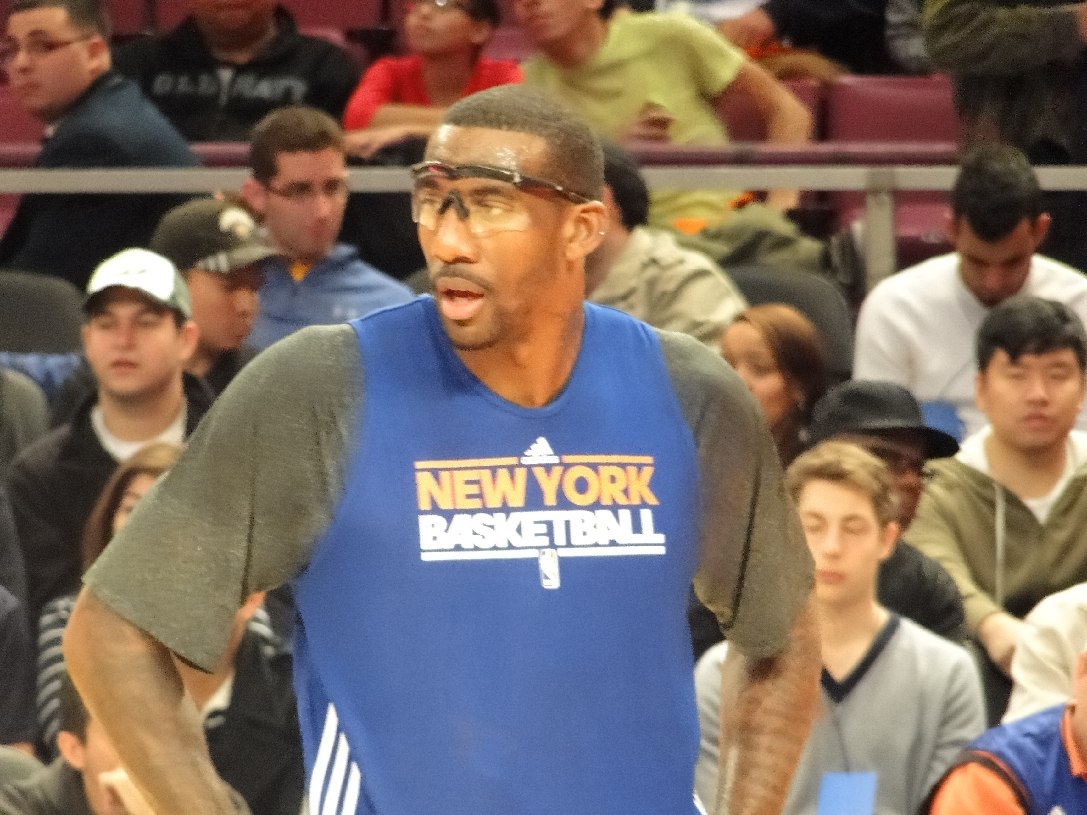 Amar'e Stoudemire at the New York Knicks' open practice.